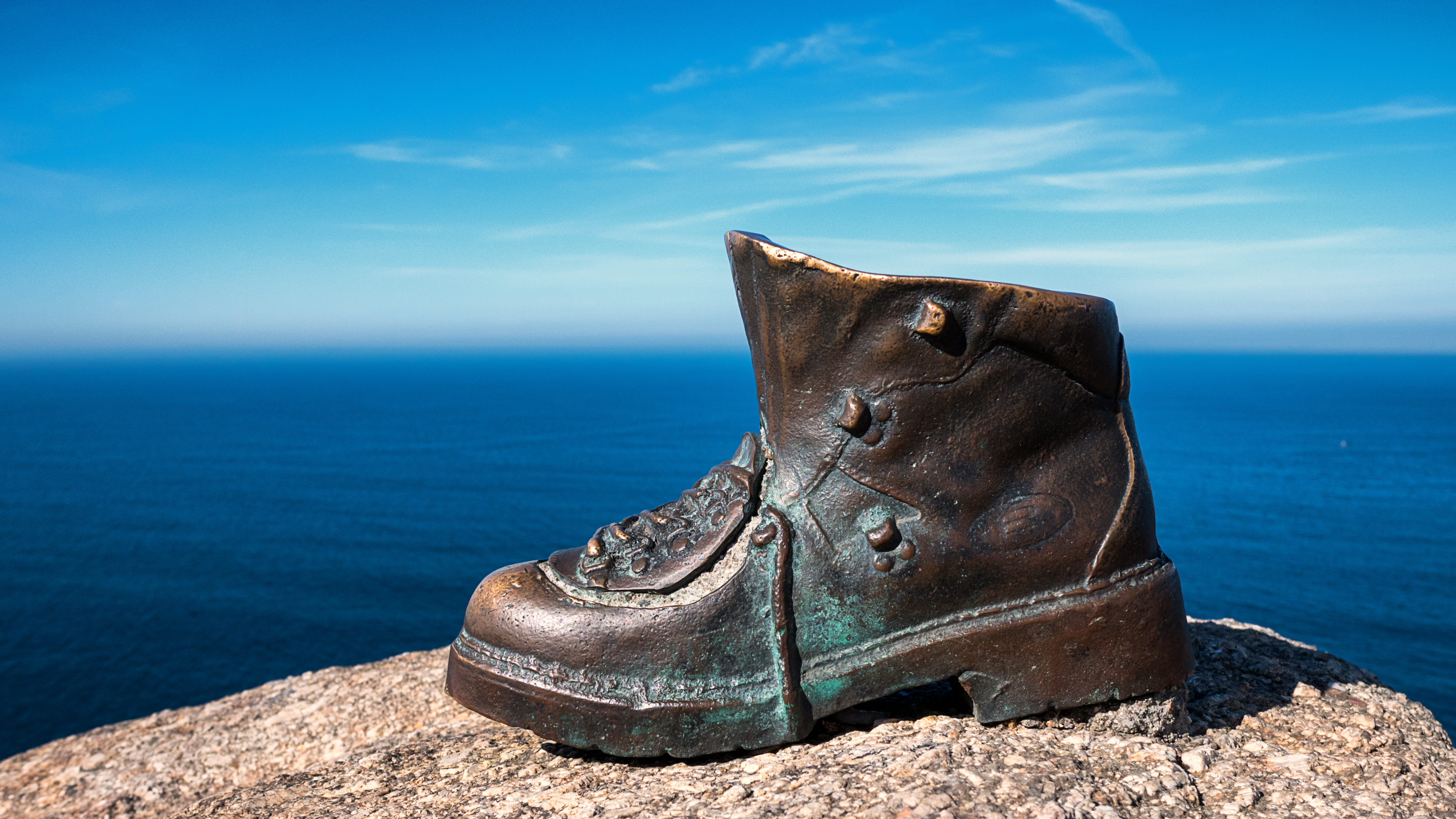 Sculpture of a pilgrim's boot at Cape of Finisterre (last station of the Way of St. James). Fisterra, La Coruña, Galicia, Spain